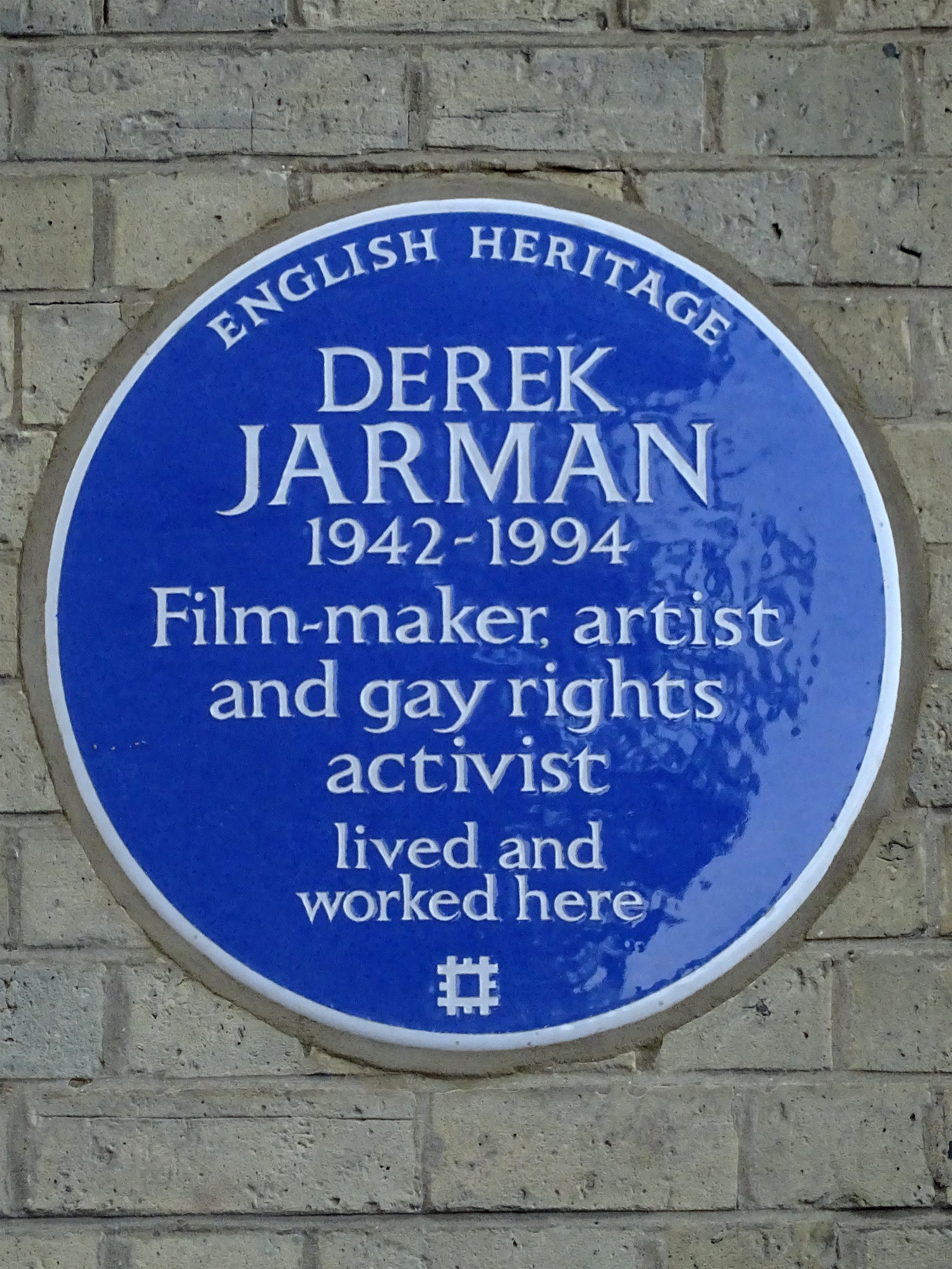 Blue Plaque erected in 2019 by English Heritage at Butler's Wharf Building, 36 Shad Thames, London, SE1 2YE, London Borough of Southwark